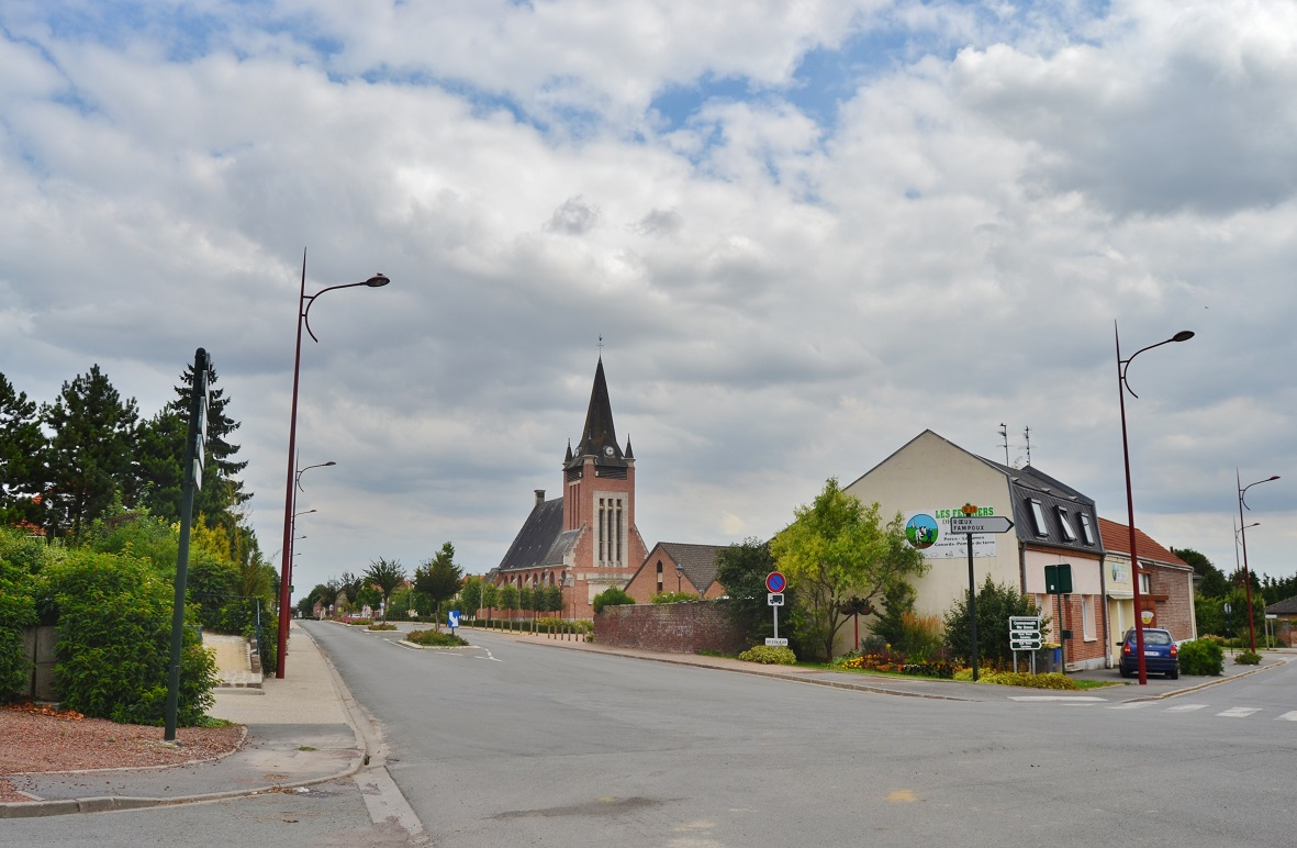 église St Vaast